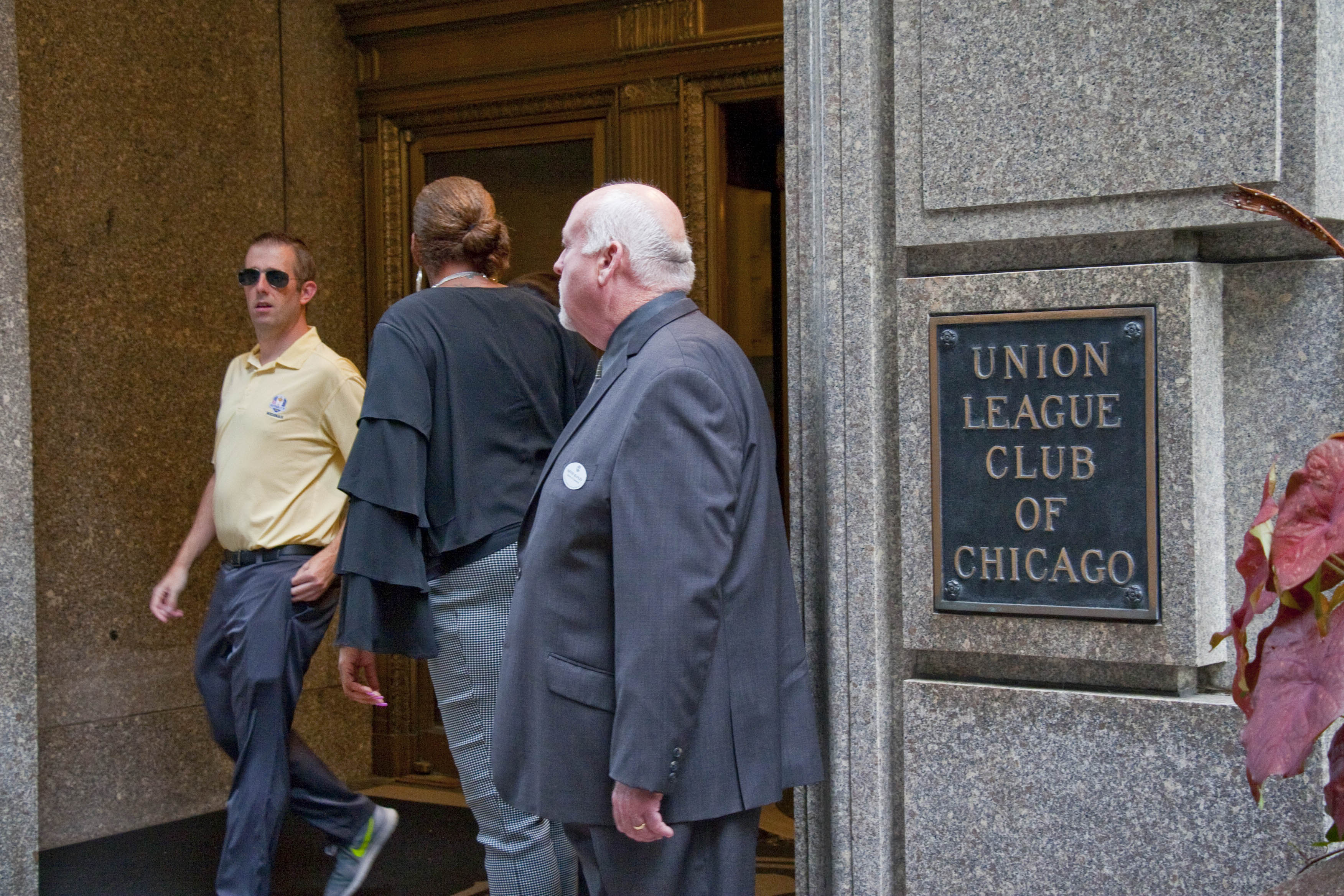 The protest was held across the street from the Union League Club of Chicago where Congressman Roskam was having a debate with his opponent in the upcoming November election Democrat Sean Casten. There were some Roskam supporters present too. They were outnumbered and outshouted by about two to one by supporters of Sean Casten.